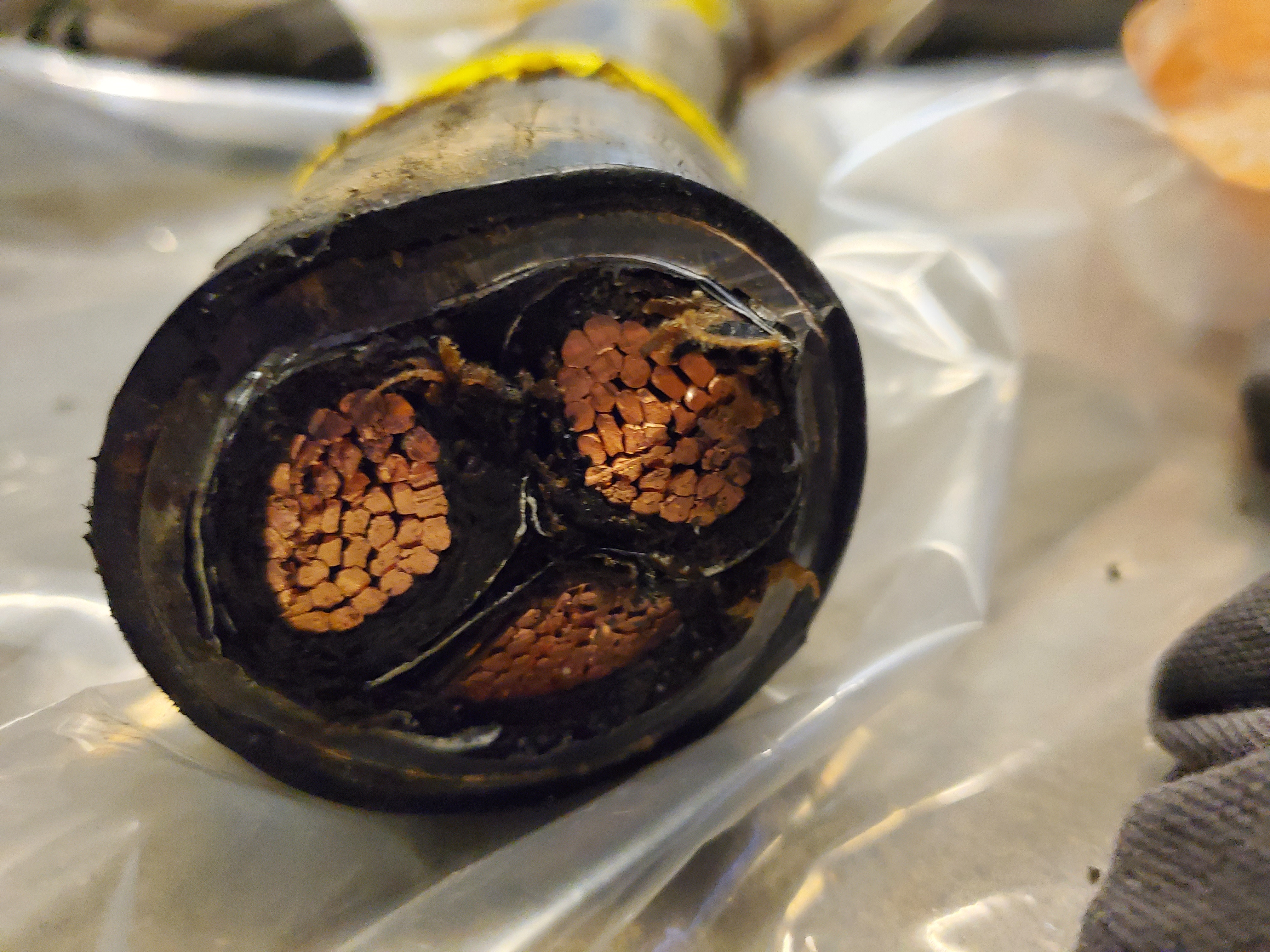 15KV PILC